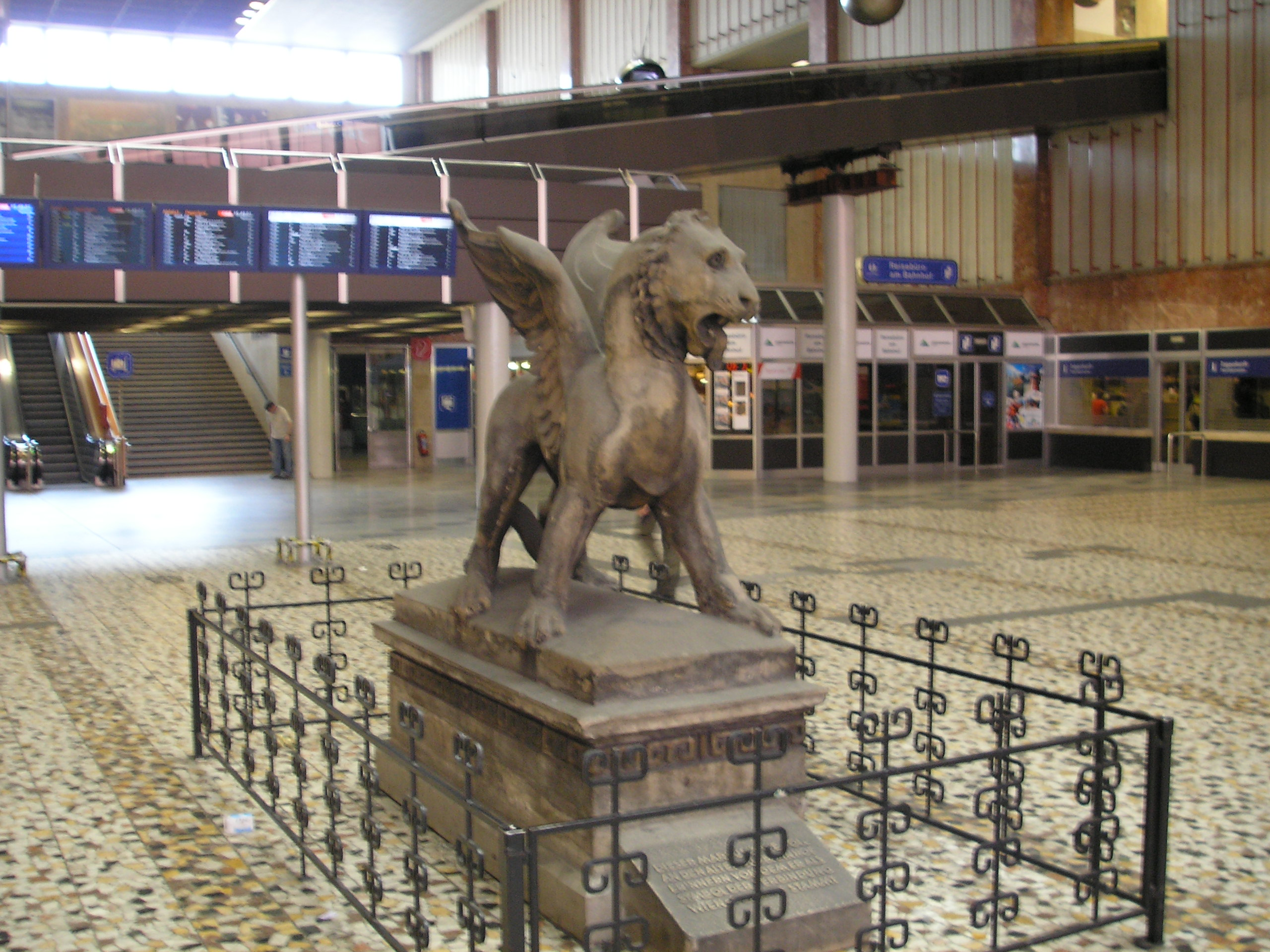 Lion statue of St.Mark, symbol of Venice. Only remaining statue of the old Südbahnhof that was torn down after World War II. Located in the hall of the post-war Südbahnhof.